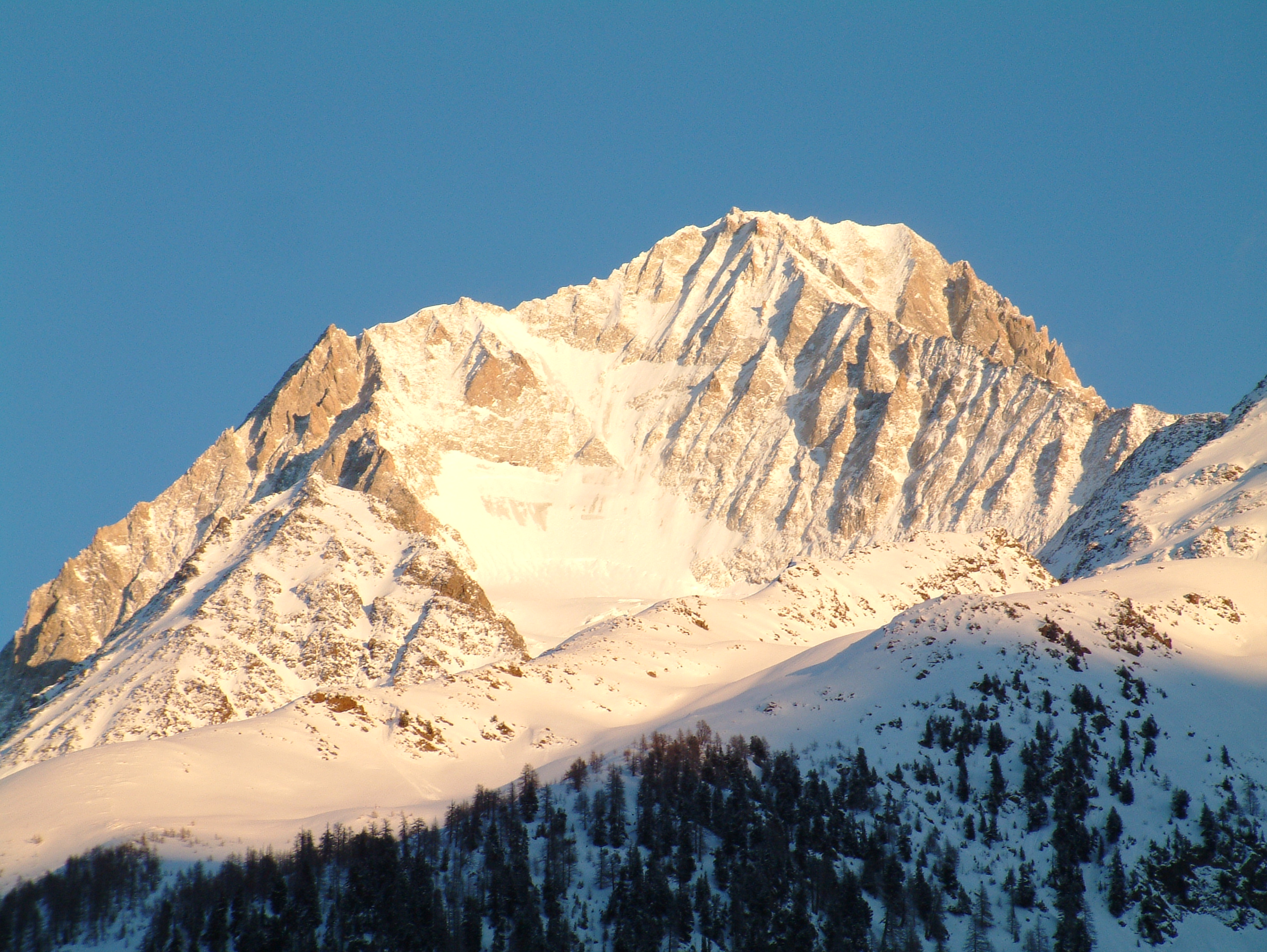 Bietschhorn (3994m), Bernese Alps / Switzerland. Seen from Wiler/Lötschental.